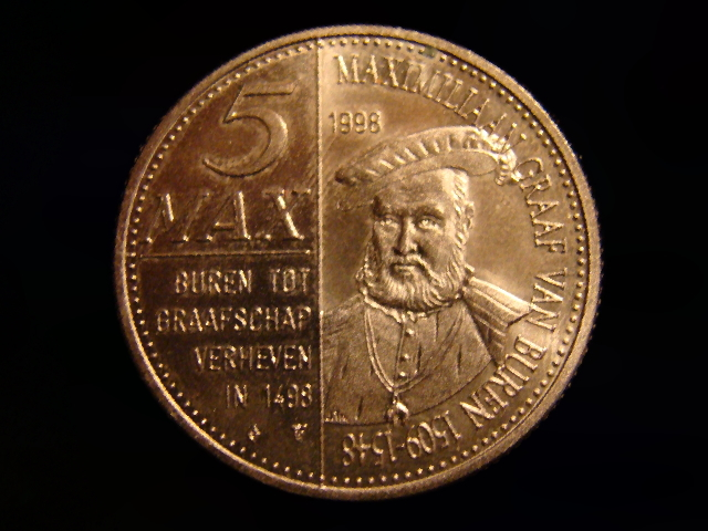 Buren, county coin